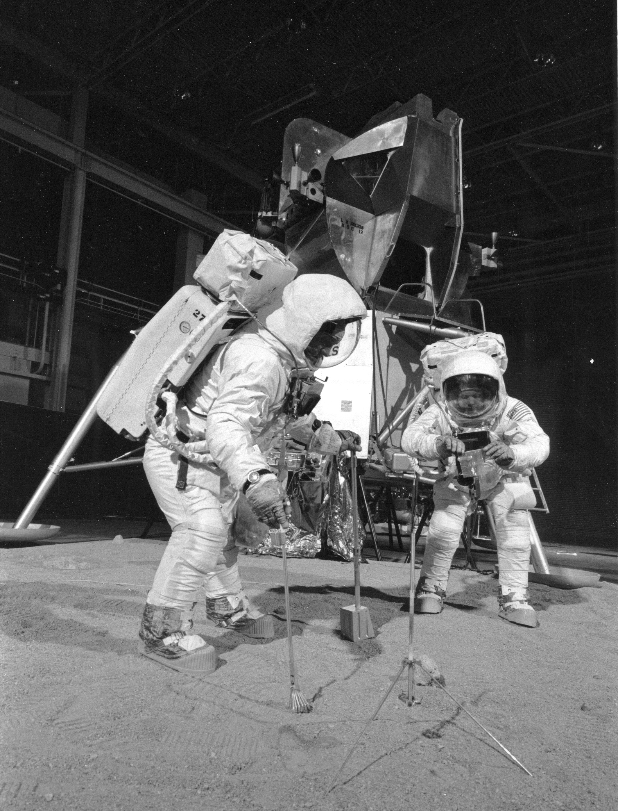 Two members of the Apollo 11 lunar landing mission participate in a simulation of deploying and using lunar tools on the surface of the Moon during a training exercise on April 22, 1969. Astronaut Buzz (Aldrin Jr. on left), lunar module pilot, uses a scoop and tongs to pick up a soil sample. Astronaut Neil A. Armstrong, Apollo 11 commander, holds a bag to receive the sample. In the background is a Lunar Module mockup.